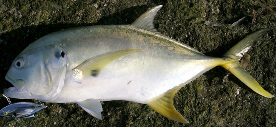 Caranx caninus taken off Mexico (Baja California)